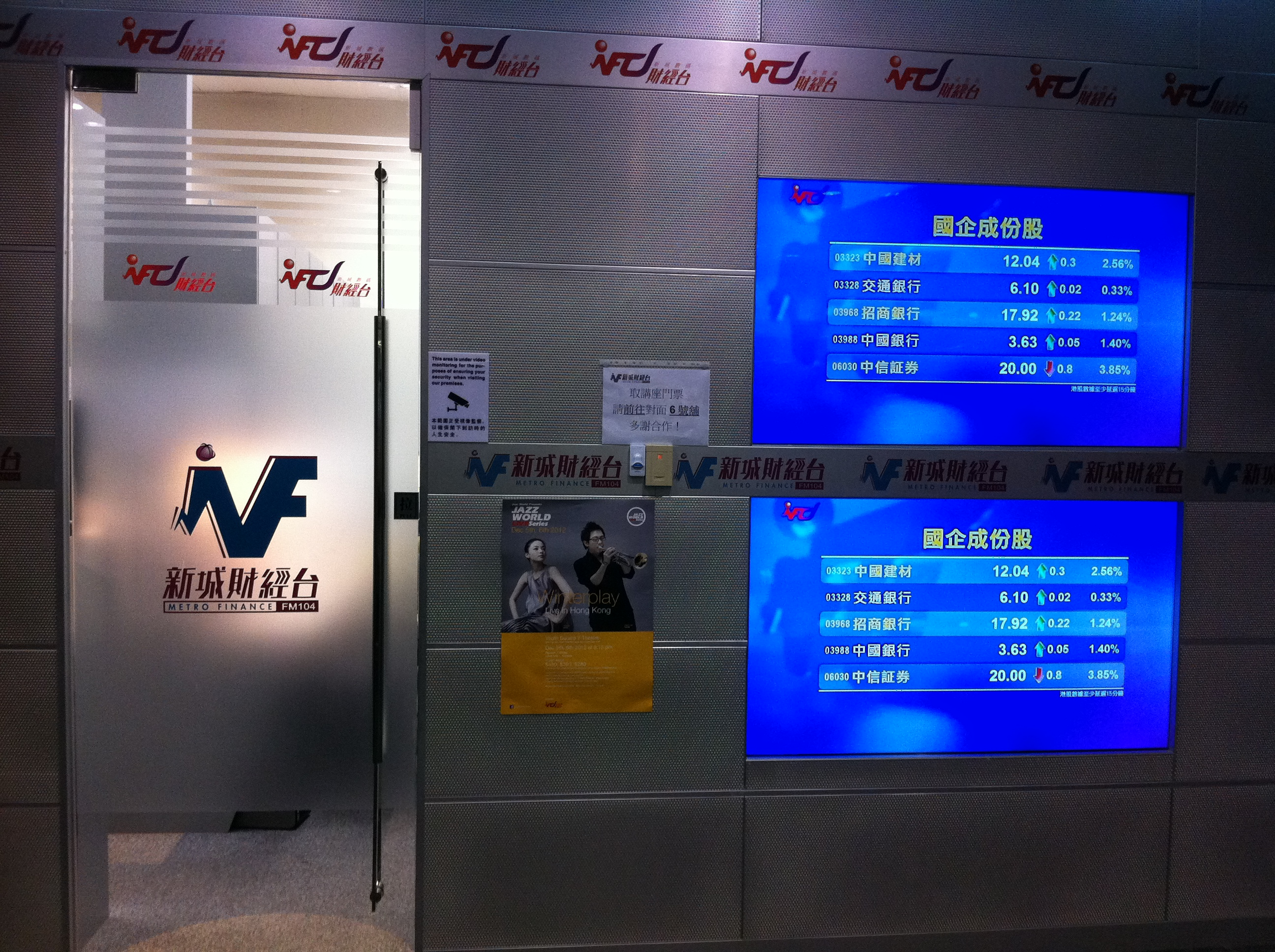 中環中心, Shop & office of the Metro Radio The Center, No.99 Queen's Road Central, Hong Kong